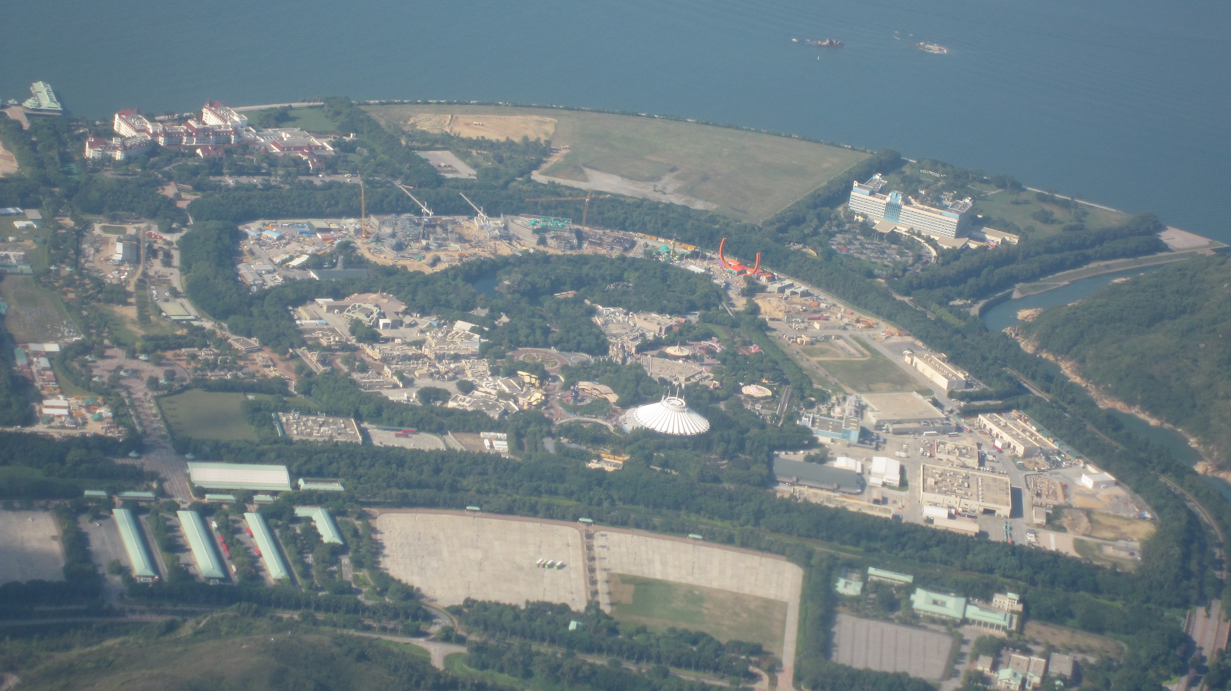 Hong Kong Disneyland Resort